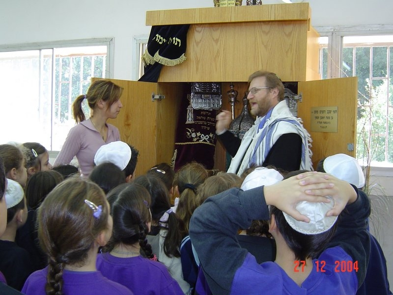 Rabbis Lesson with kids